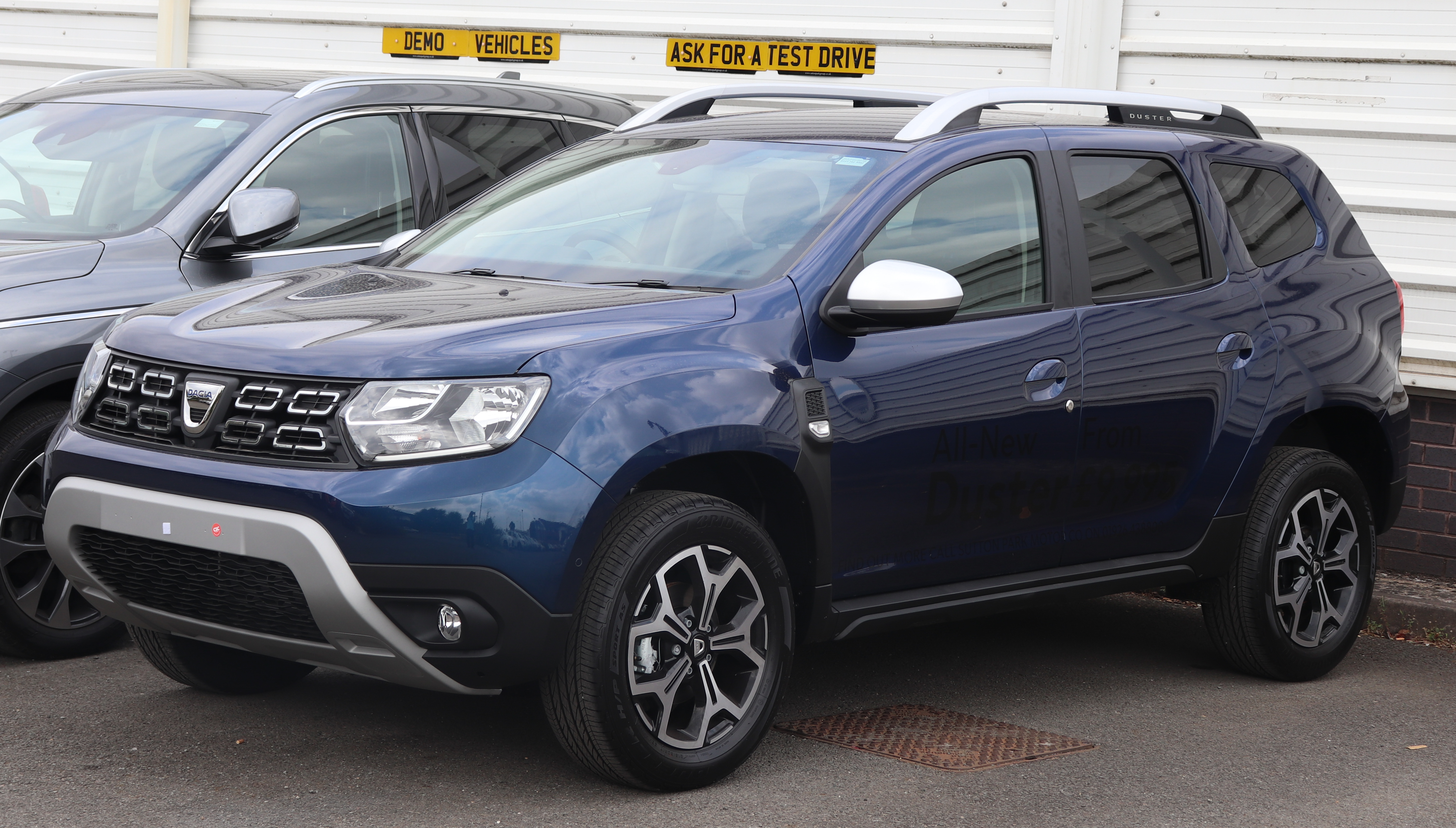 2018 Dacia Duster Taken in Leamington Spa